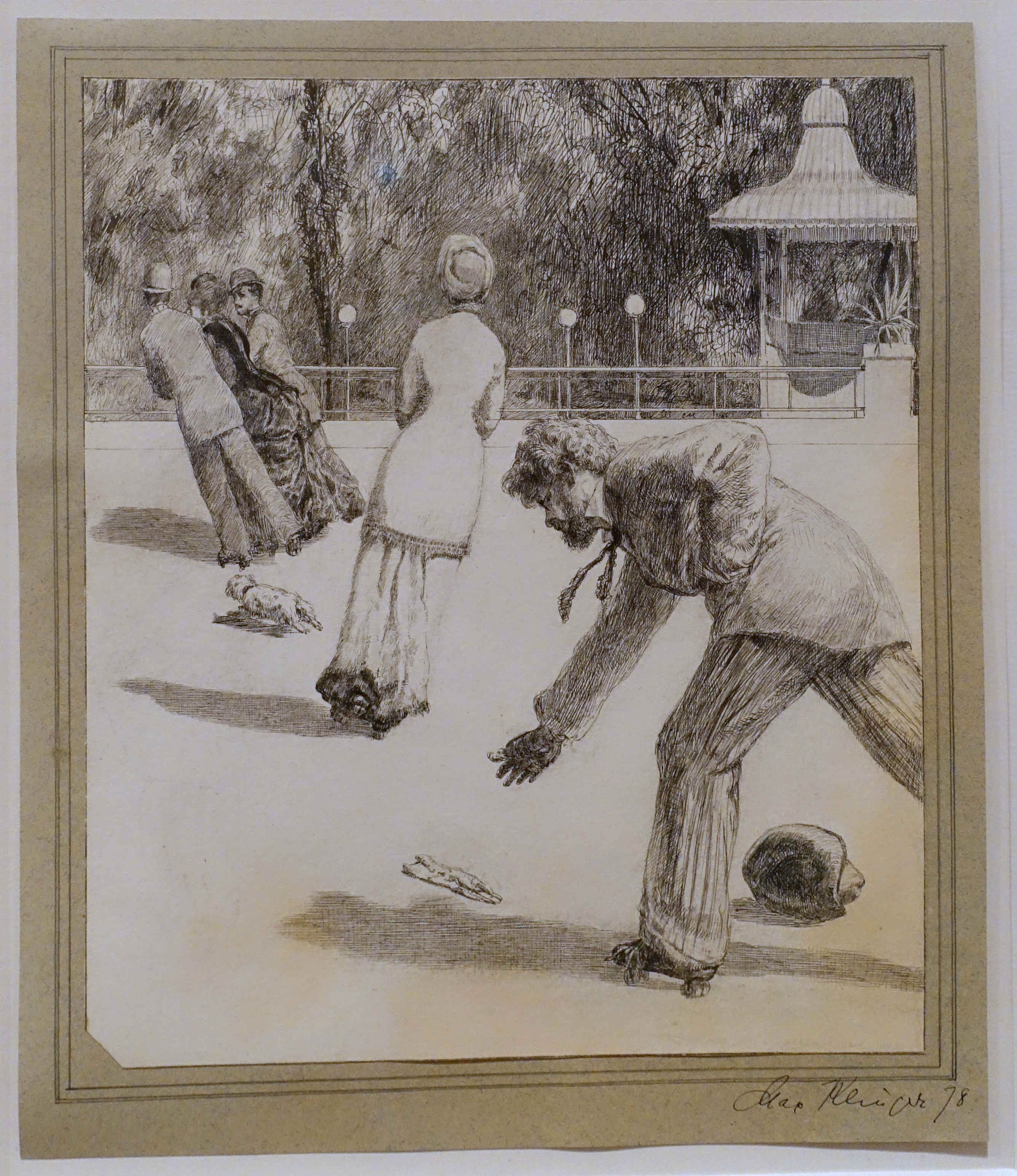 "Fantasies about a found glove, dedicated to the lady who lost it," from a series of 10 drawings by Max Klinger, 1878, India ink and wash. Exhibit in the Museum Berggruen, Schloßstraße 1, 14059 Berlin, Germany. This artwork is in the public domain because its creator died more than 70 years ago.